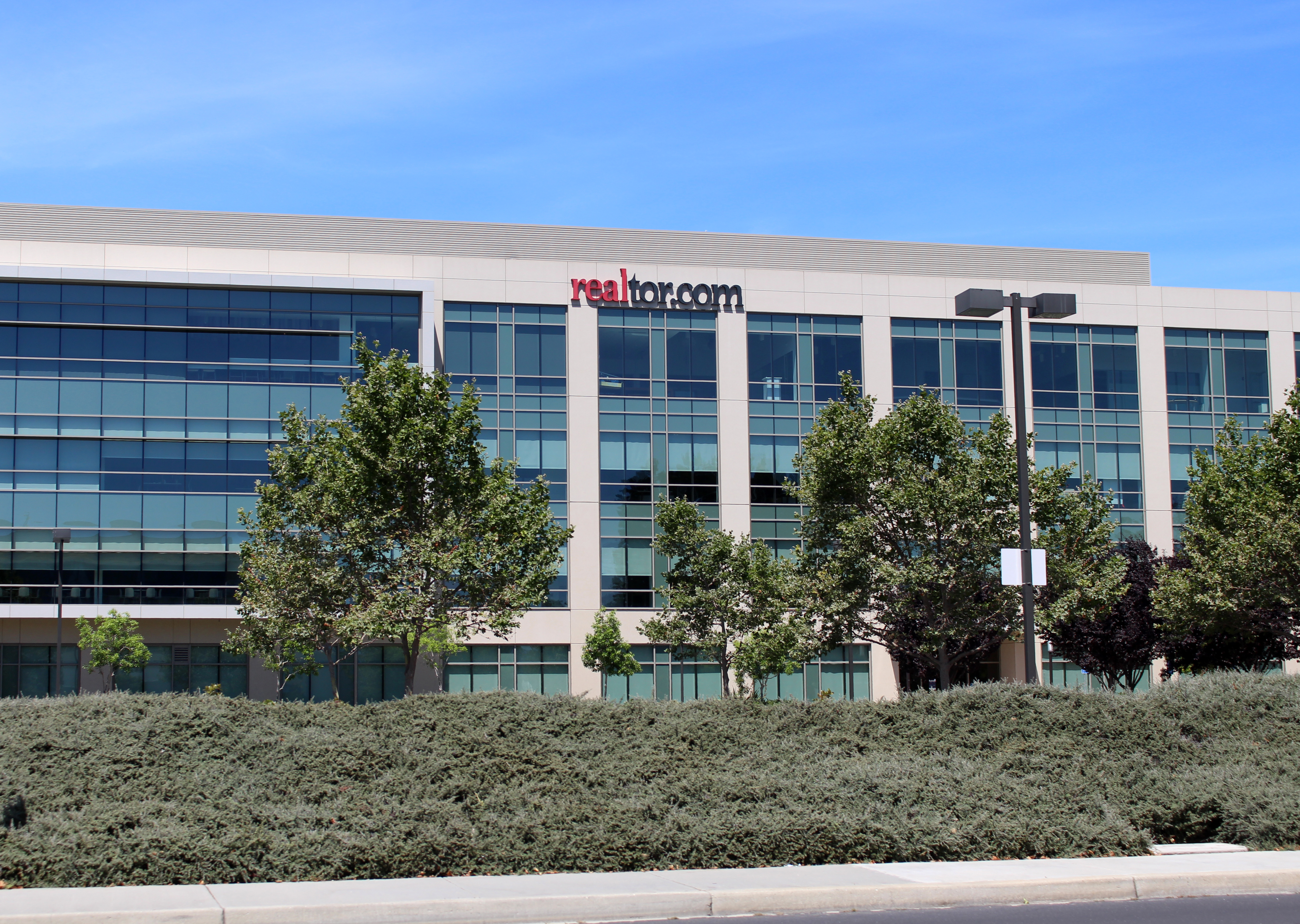 headquarters in Santa Clara, California. Photographed on June 21, 2020 by user Coolcaesar.